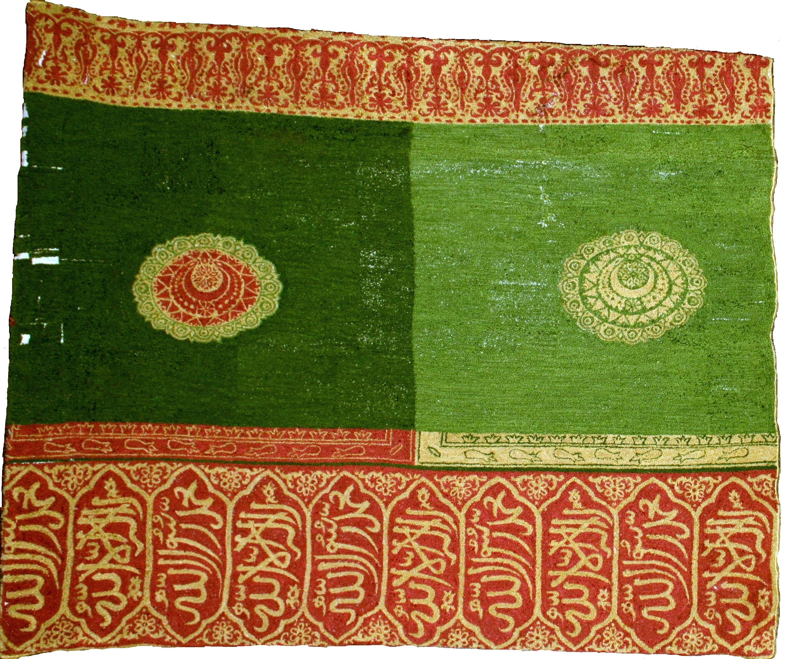 Flag of Khanate of Ganja in Ganja History - Ethnography Museum